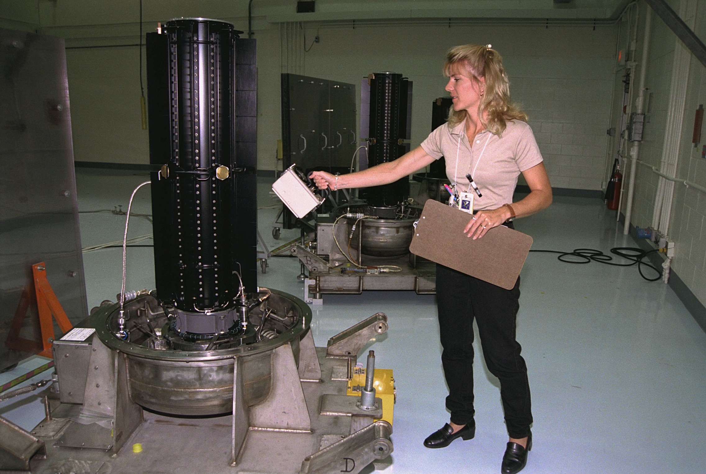 Environmental Health Specialist Jamie A. Keeley, of EG&G Florida Inc., uses an ion chamber dose rate meter to measure radiation levels in one of three radioisotope thermoelectric generators (RTGs) that will provide electrical power to the Cassini spacecraft on its mission to explore the Saturnian system. The three RTGs and one spare are being tested and monitored in the Radioisotope Thermoelectric Generator Storage Building in the KSC's Industrial Area. The RTGs use heat from the natural decay of plutonium to generate electric power. RTGs enable spacecraft to operate far from the Sun where solar power systems are not feasible. The RTGs on Cassini are of the same design as those flying on the already deployed Galileo and Ulysses spacecraft. The Cassini mission is targeted for an Oct. 6 launch aboard a Titan IVB/Centaur expendable launch vehicle. External radiation inspection of the Cassini-Huygens spacecraft's Radioisotope Thermoelectric Generators.